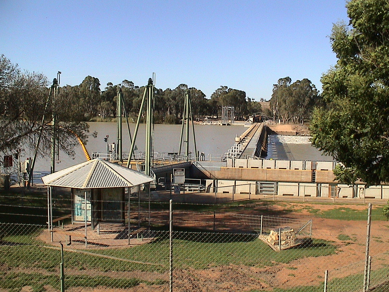 Lock 1 and weir on the River Murray at Blanchetown, South Australia